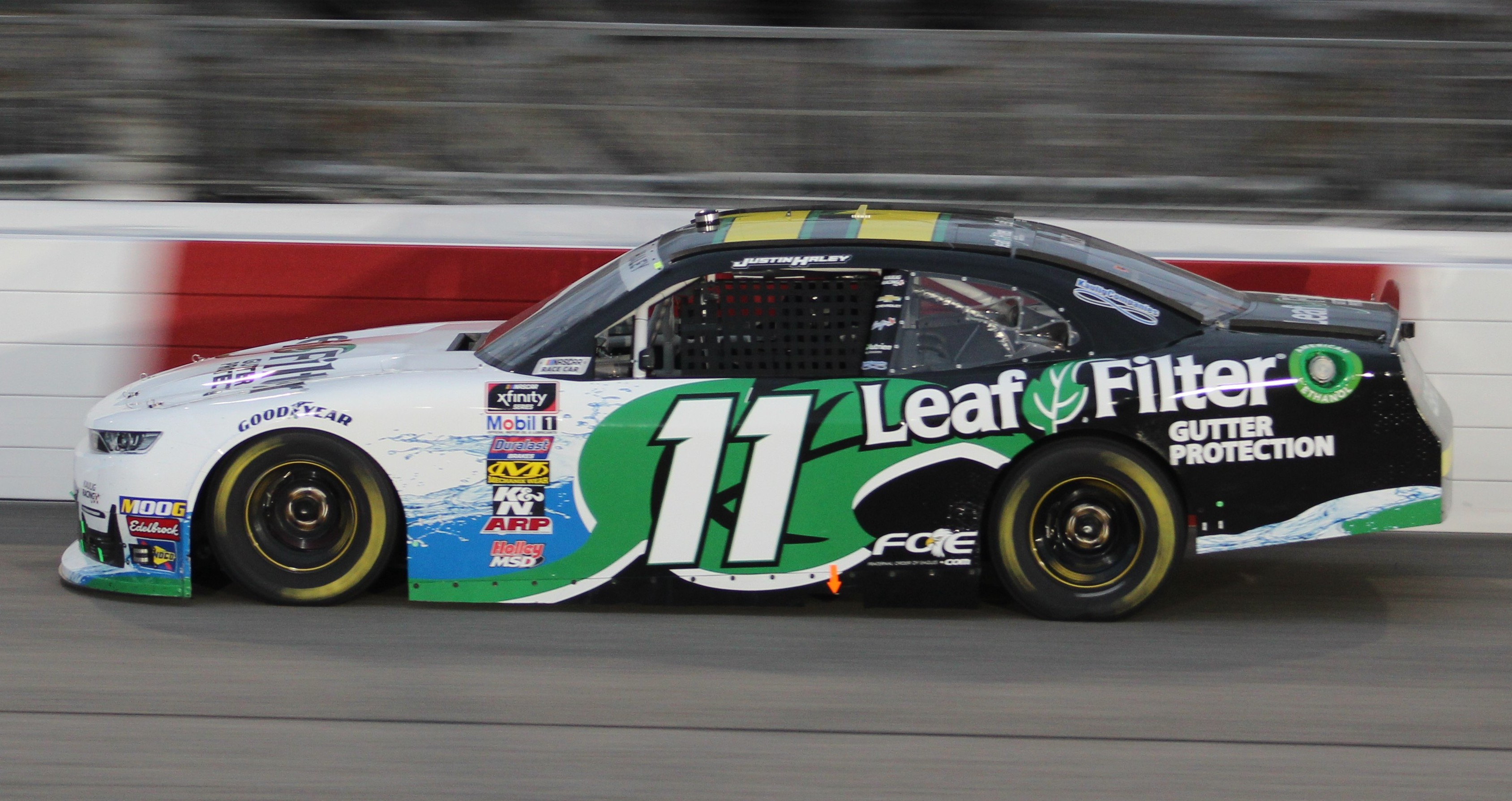 2019 Toyota Owners 400